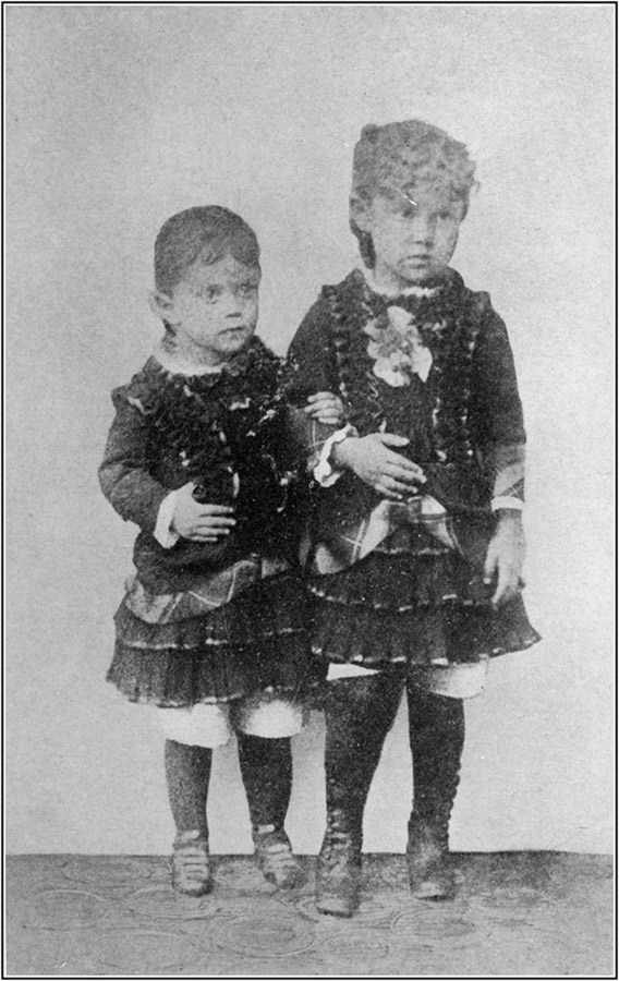 Mary Antin & sister Fetchke as infant children. Mary Antin (June 13, 1881 – May 15, 1949) was an American author and immigration rights activist.